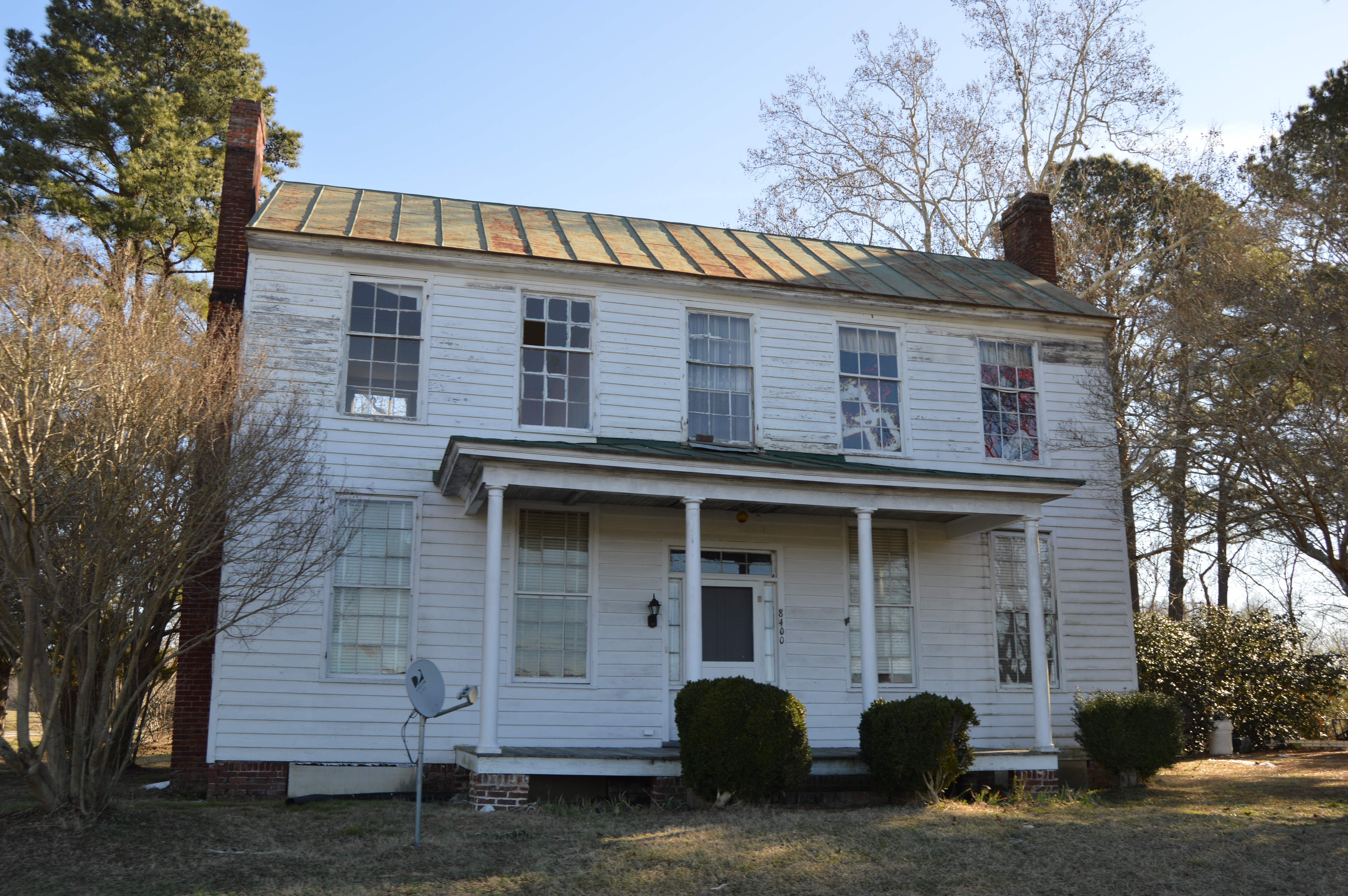 Front of the late-18th-century house on Arthur Drive at Pittmantown Road in Suffolk, Virginia, United States. It sits at the core of the Somerton Historic District, a historic district that is listed on the National Register of Historic Places.